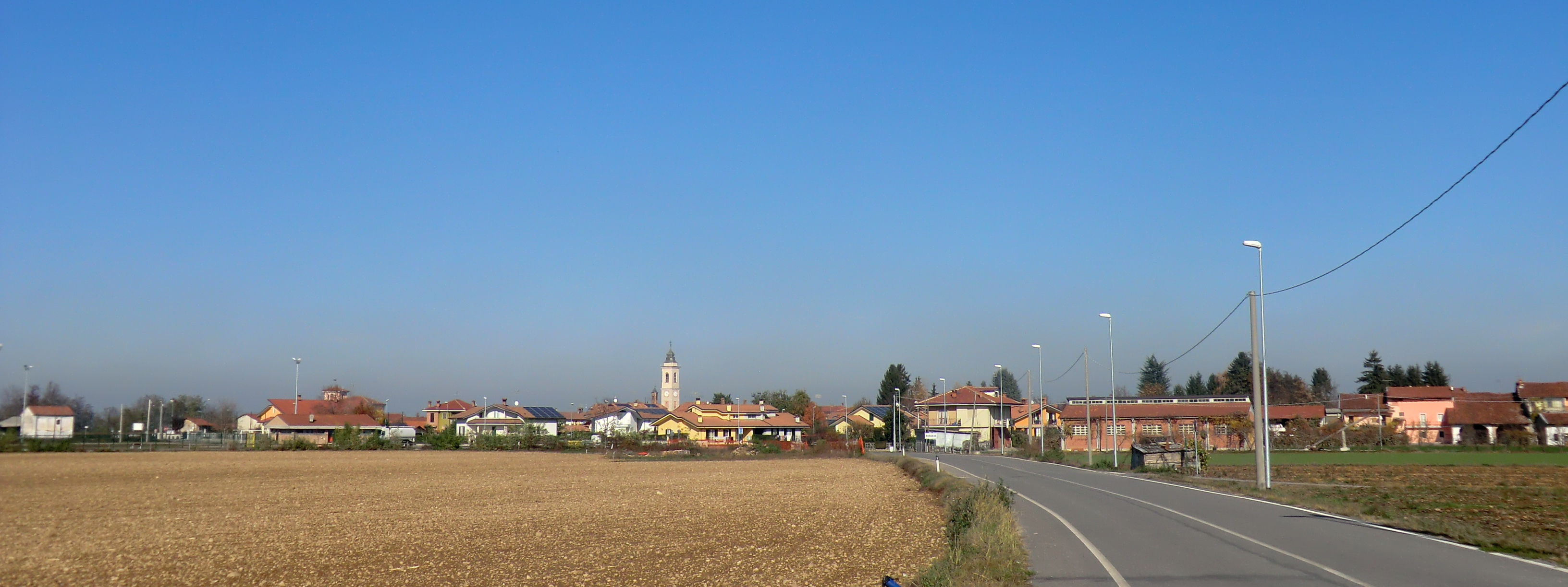 Montanera (Cuneo - Italy): landscape